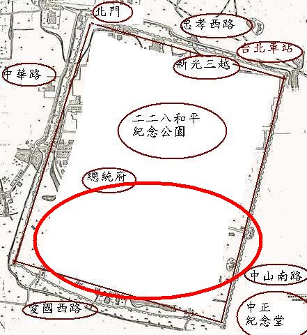 Chang-kwo in Taipei